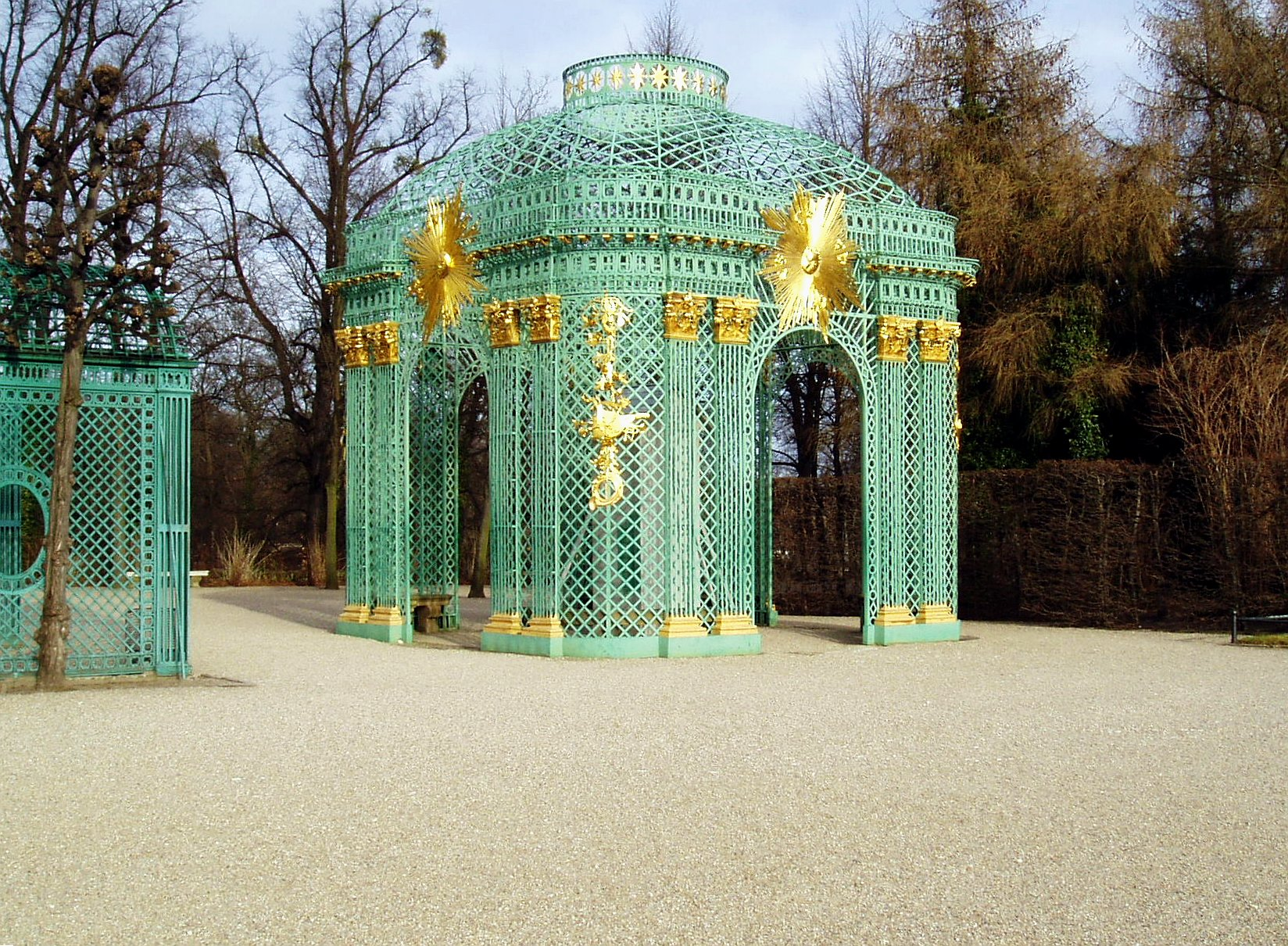 "Gitterpavillon" at Sanssouci, Potsdam, Germany